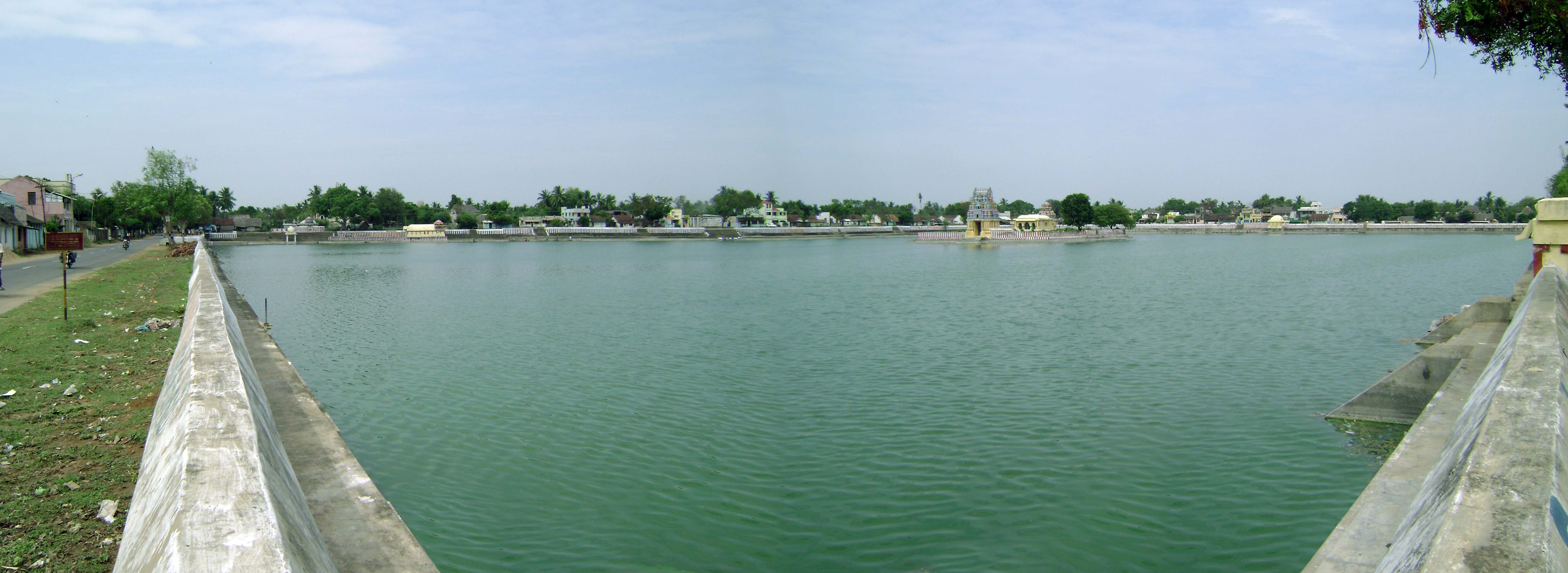 Haridra Nadhi